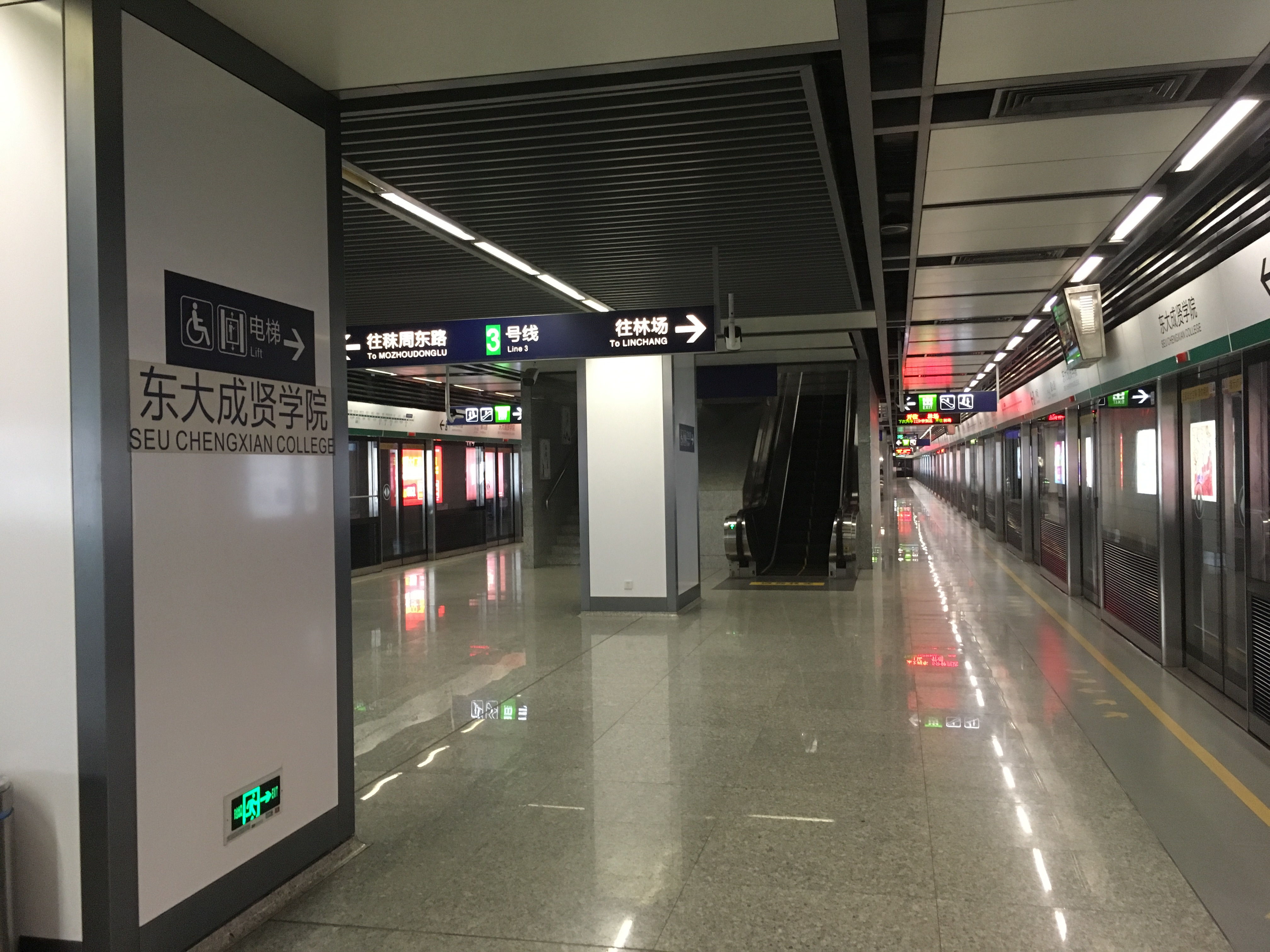 Southeast University Chengxian College Station, Nanjing Metro Line 3